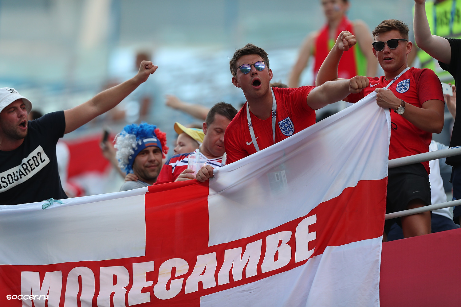 2018 FIFA World Cup Match 30, England v Panama